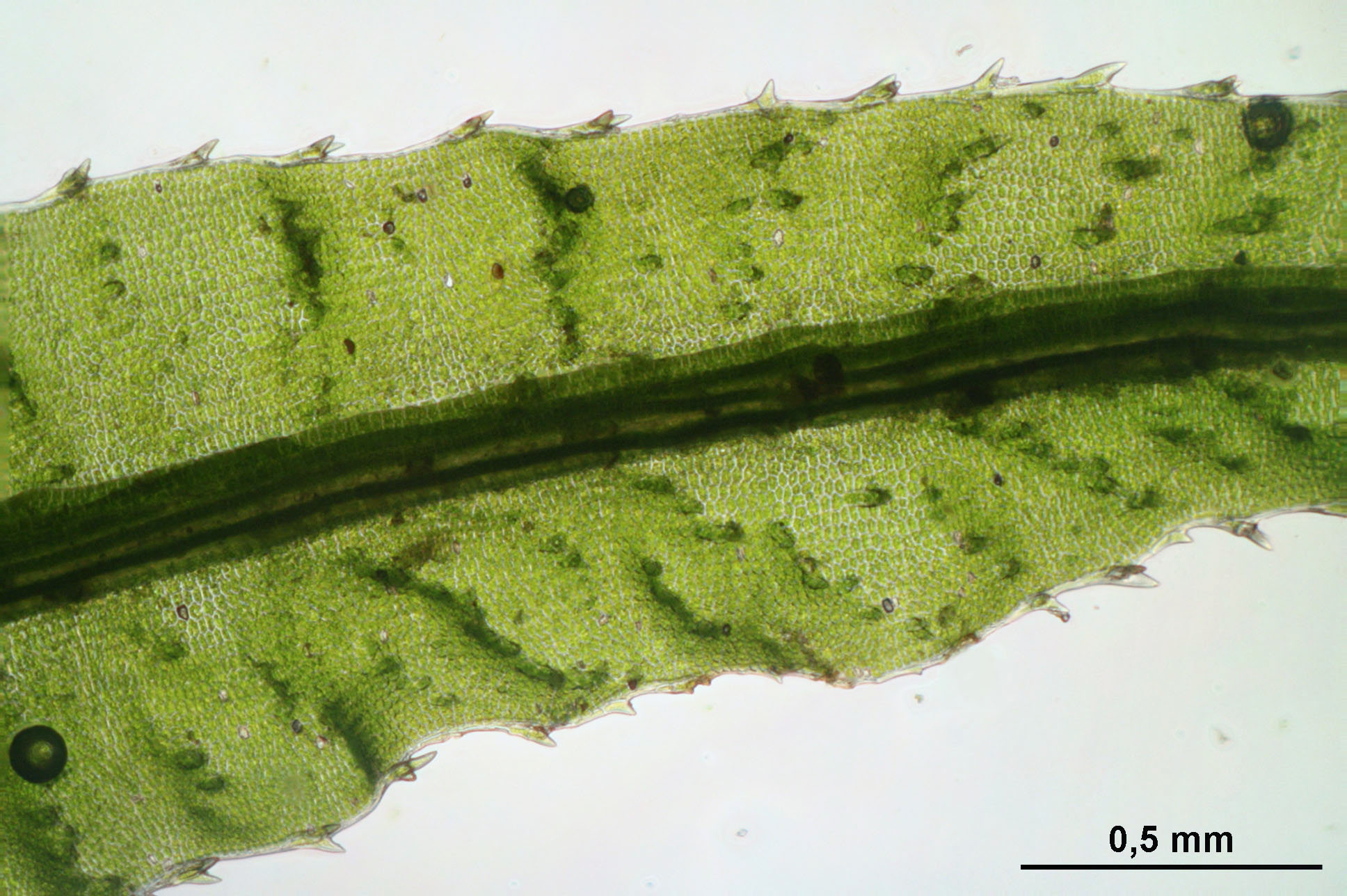 Atrichum undulatum